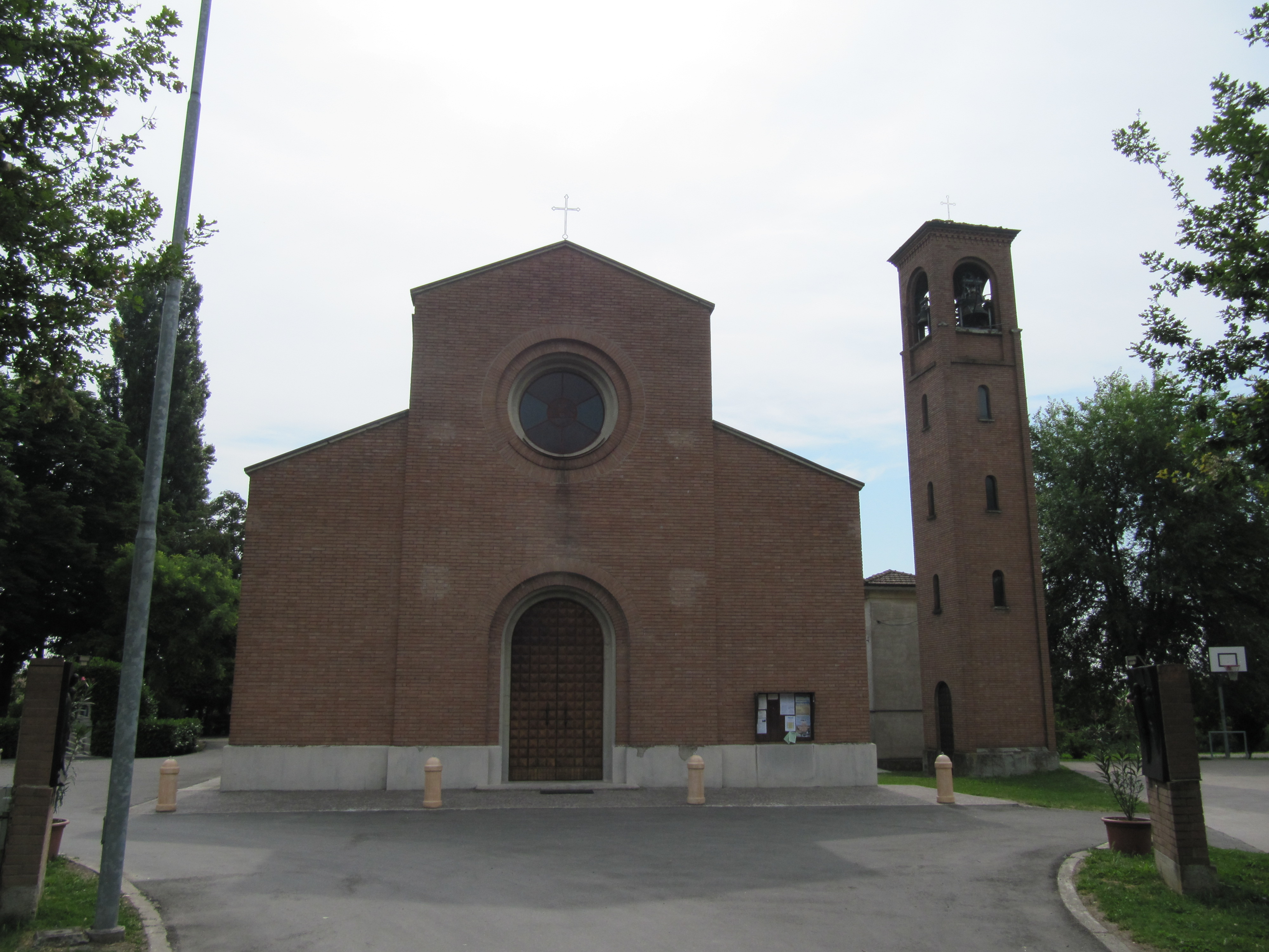 La Pieve Rossa di Bagnolo.